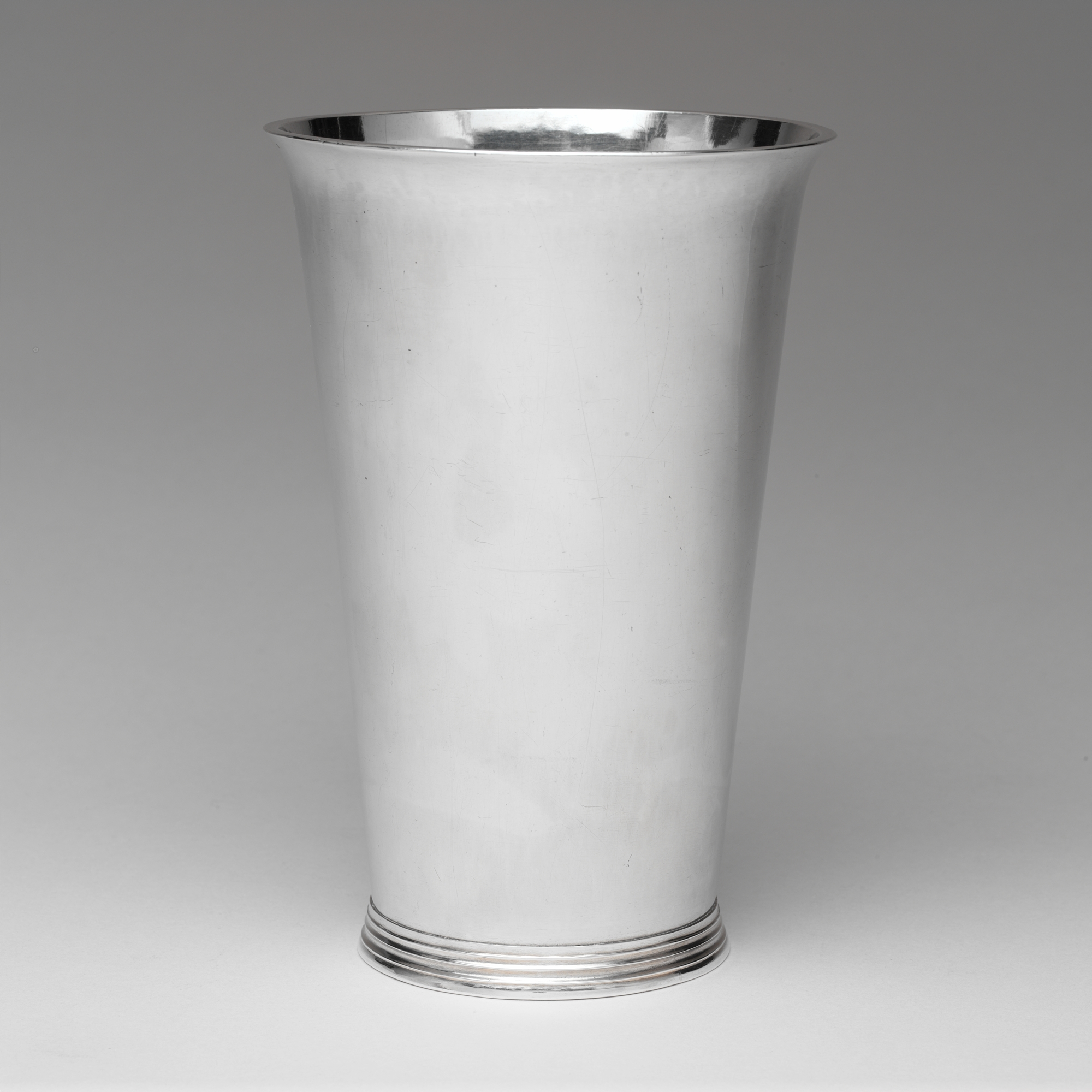 American; Beaker; Silver